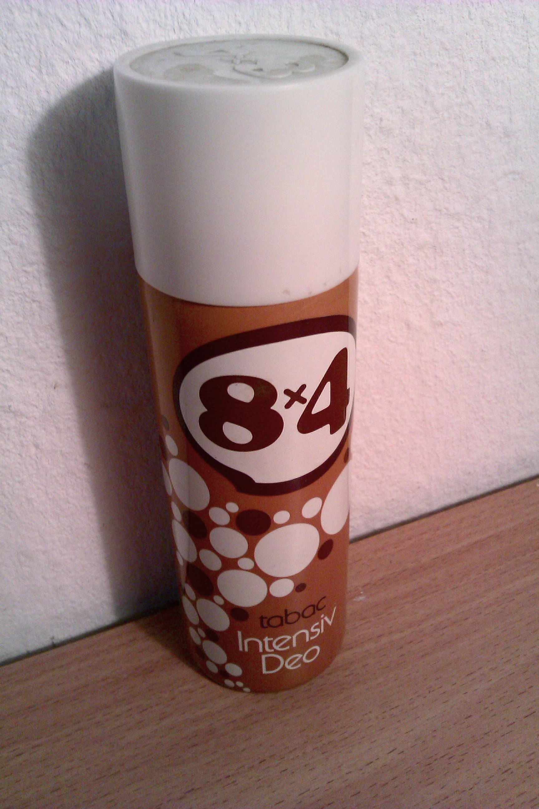 Retro Deo 8x4 Tabac Intensiv Deo